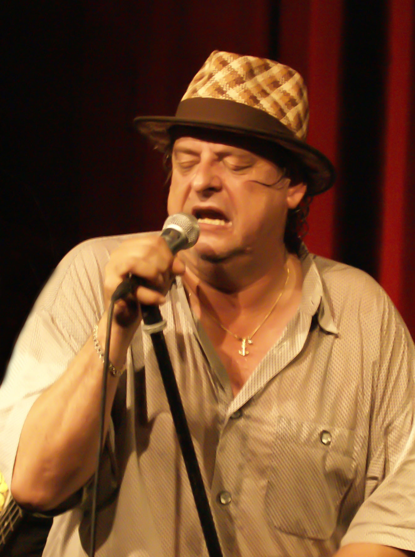 Endo Anaconda, lead singer of Swiss band Stiller Has.